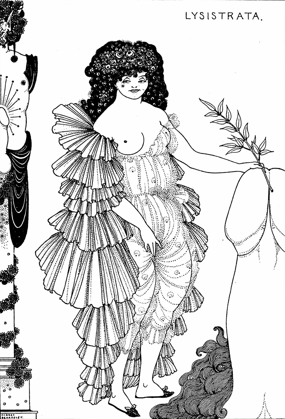 Lysistrata